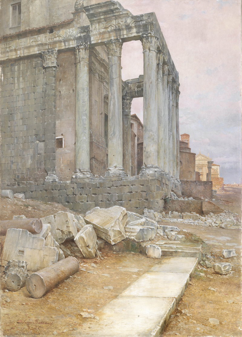 Luigi Bazzani, View of the Temple of Antonino and Faustina looking towards the church of St. Francesca Romana (private collection)